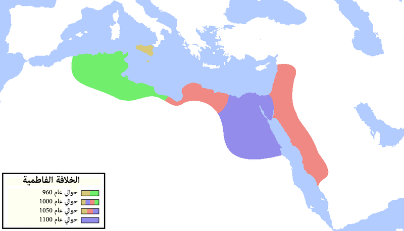 Map the Fatimid Empire (chronological)Map drawn acc. to: Euratlas' map of the Fatimid Empire c.1000 [1] Qantara-Med's map of the Mediterranean c.1000 [2] Territories in green represent Hammadid and Zirid realms, resp. indep. in 1018 and 1048 Ian Mladjov's map of the Eastern Mediterranean in 1096 [3] Qantara-Med's map of the Mediterranean c.1100 [4]